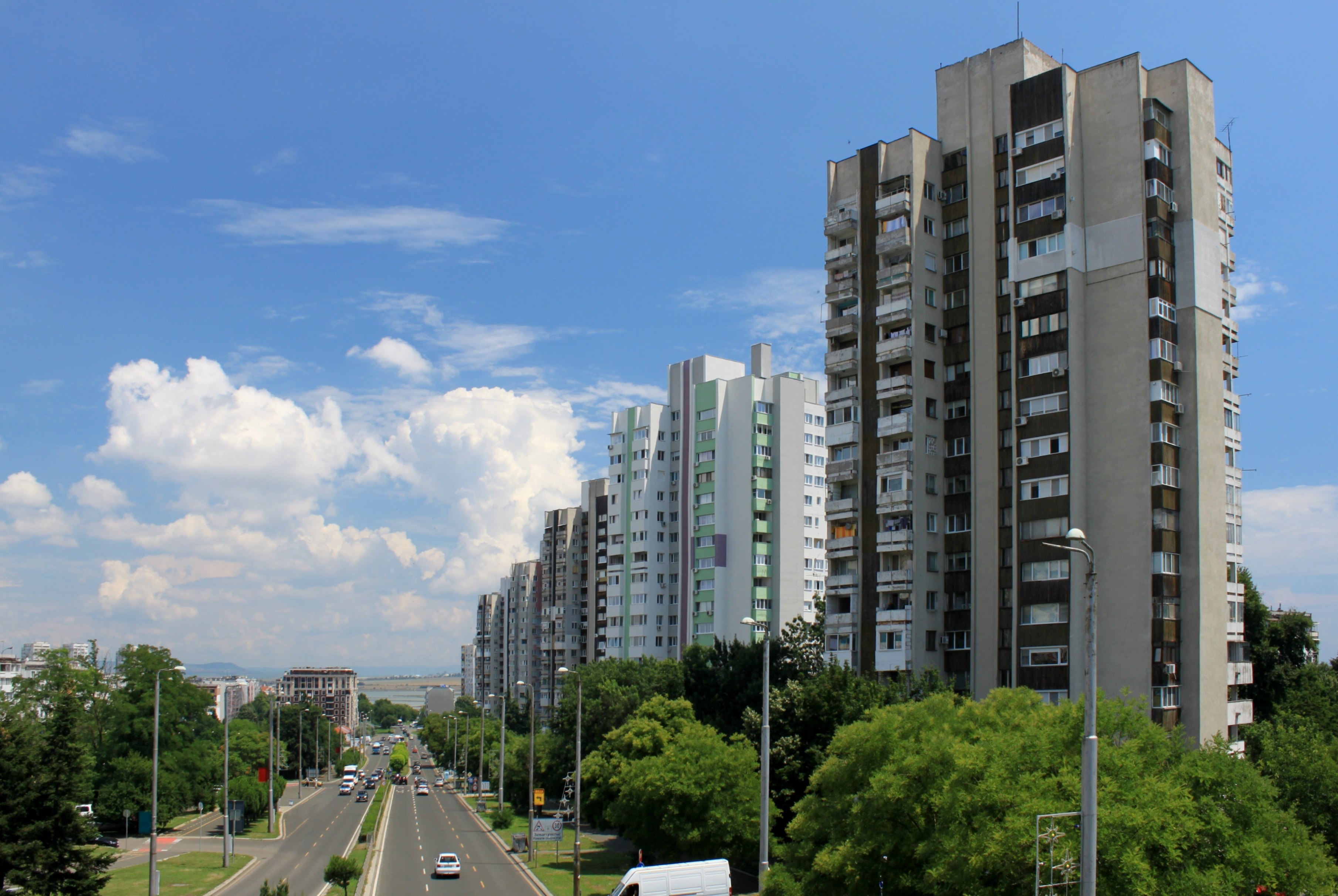 High-rise apartment buildings in Burgas